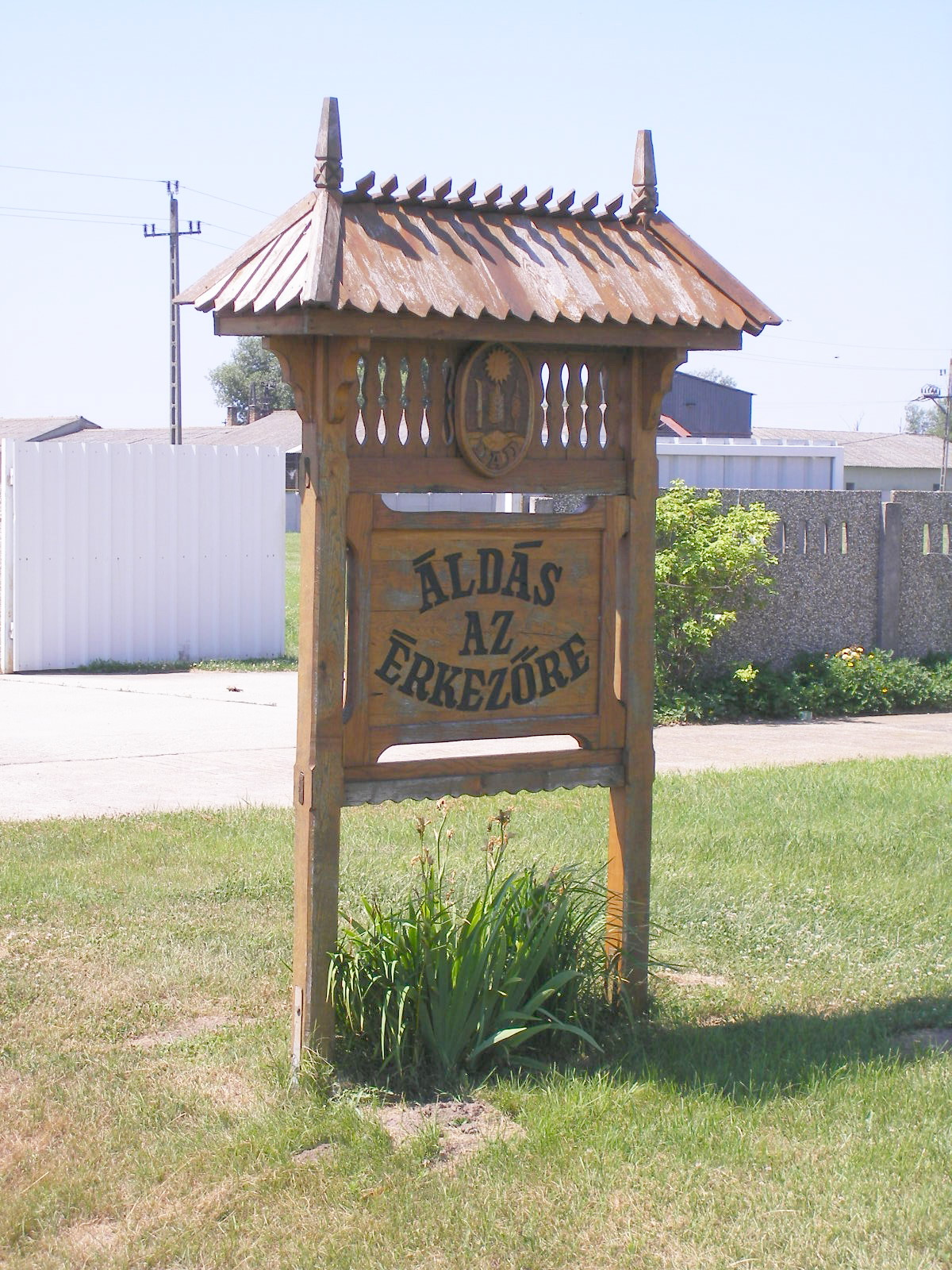 Dad - welcome sign